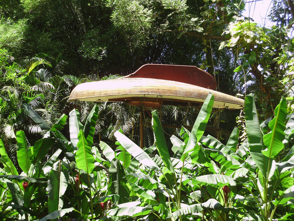 Simon Starling at Inhotim-2010, Brumadinho/Brazil